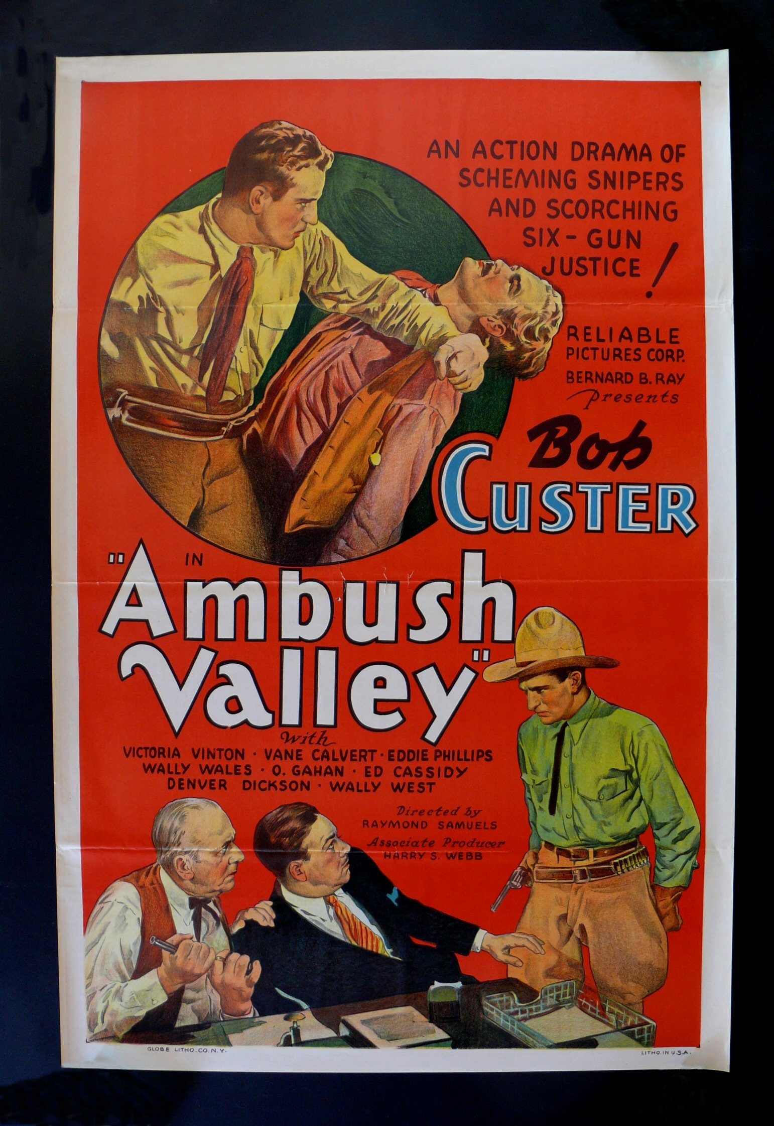 Ambush Valley movie poster